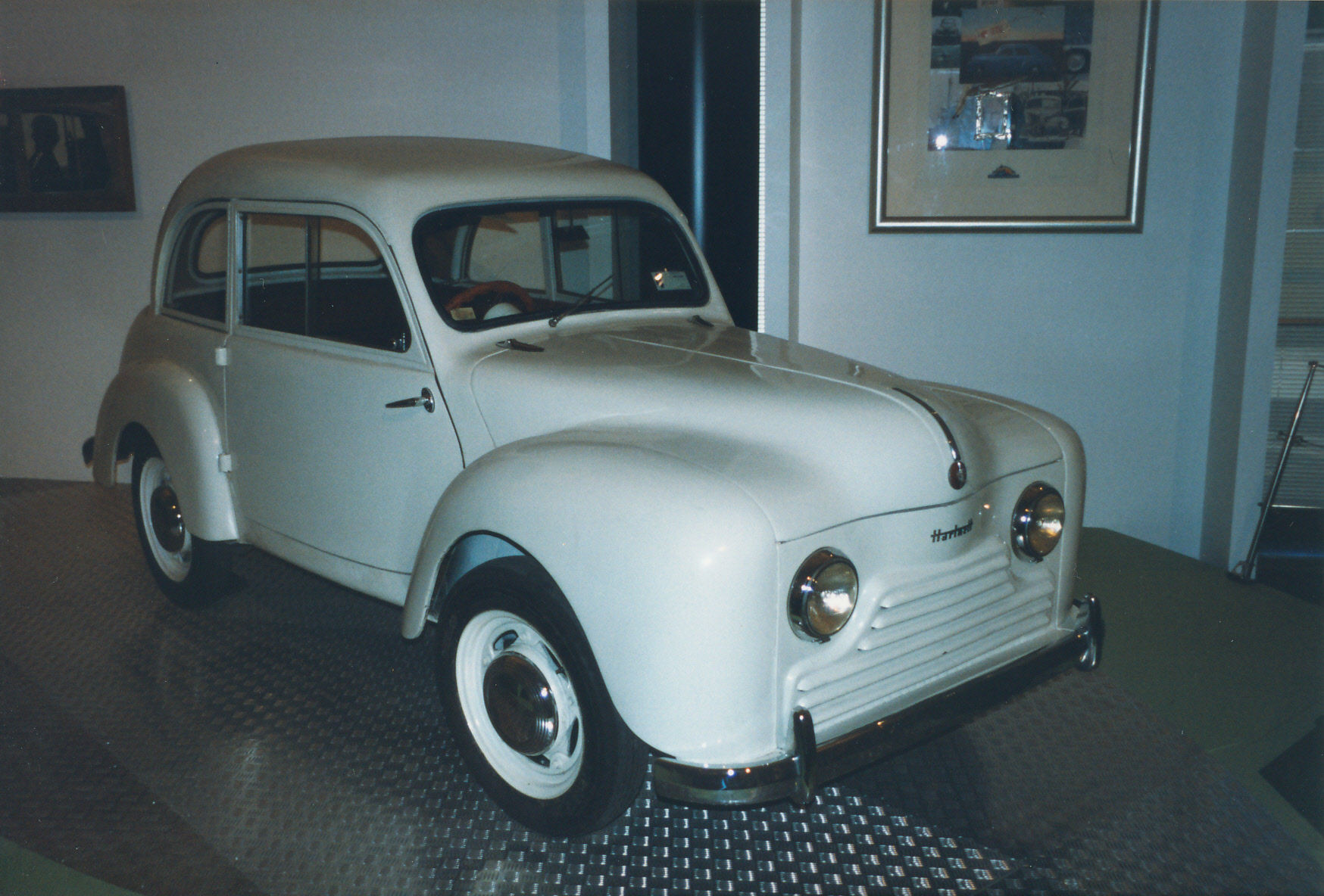 Hartnett Tasman. This image is a scan of a 35mm print taken in 1999